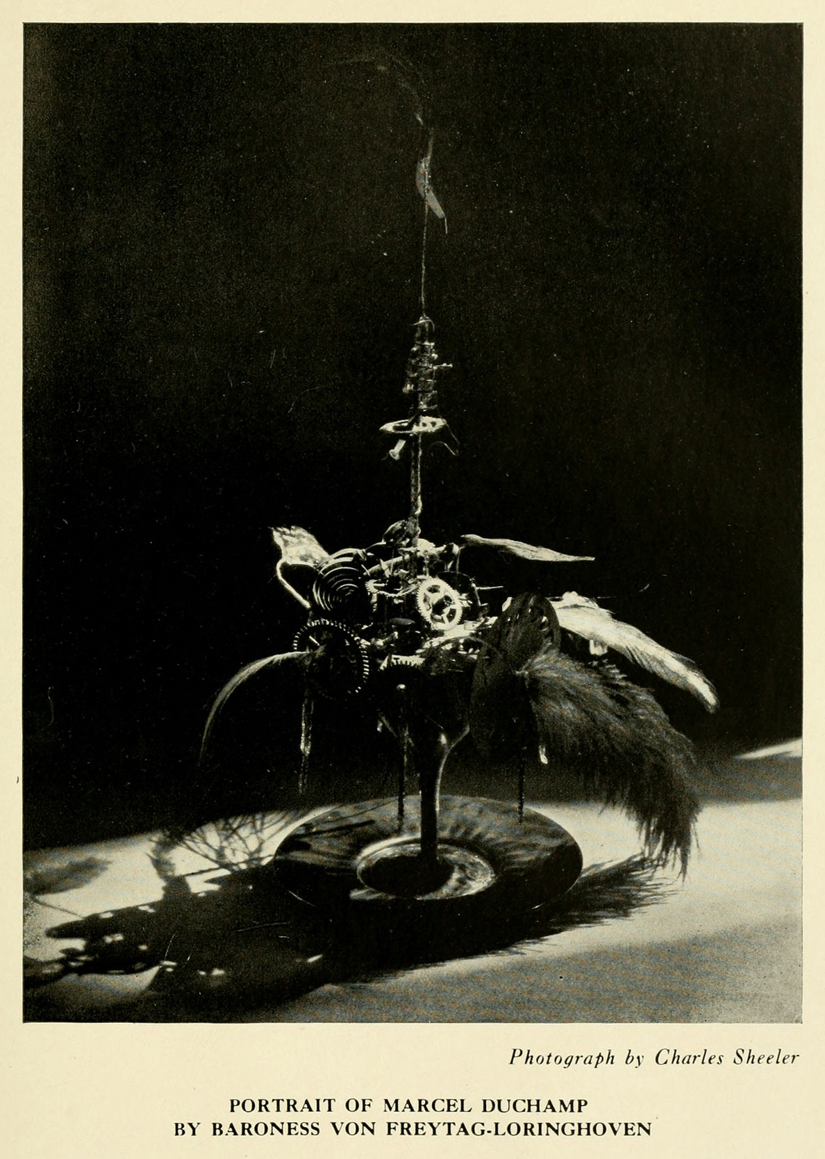 Portrait of Marcel Duchamp by Baroness Freytag-Lohringhoven Photograph by Charles Sheeler published in The Little Review: Quarterly Journal of Art and Letters Vol. 9, No. 2: Miscellany Number Anderson, Margaret C. (editor) New York: Margaret C. Anderson, 1922-12 (Winter 1922)